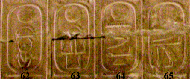 Royal cartouches 62 through 65